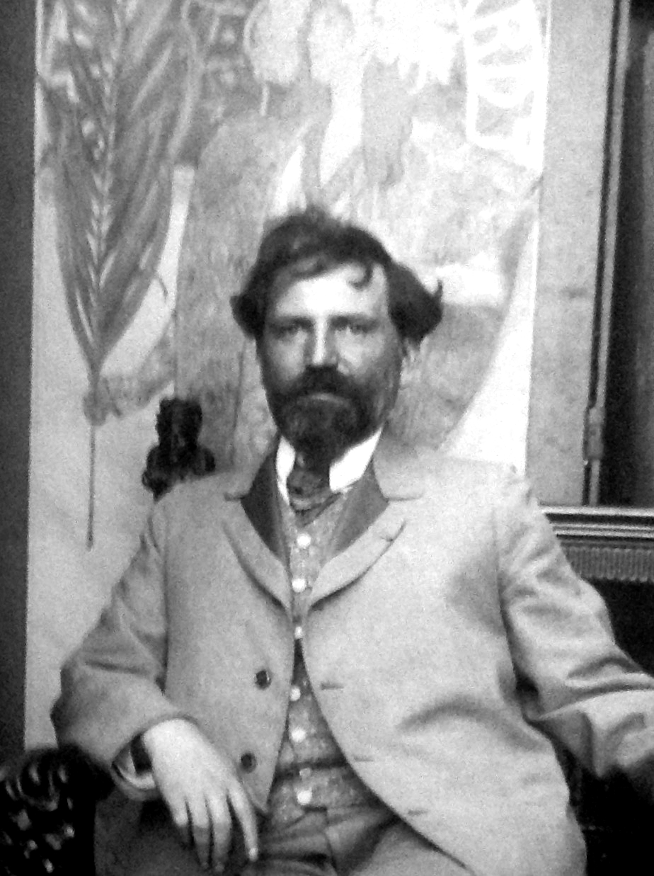 Alfons Mucha in his Paris studio on Rue de Val de Grace (c. 1899)